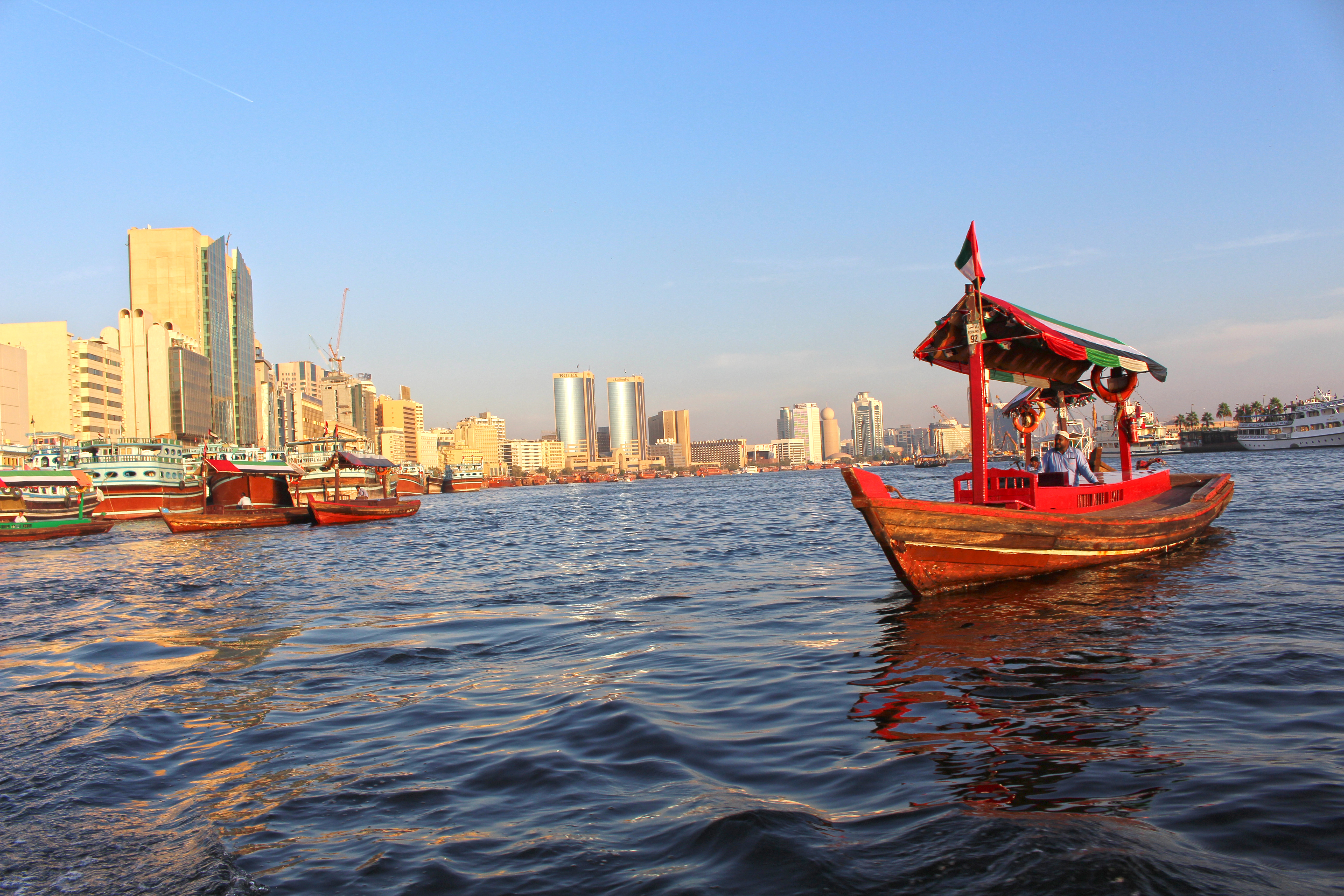 An Abra (Boat) at Dubai Creek